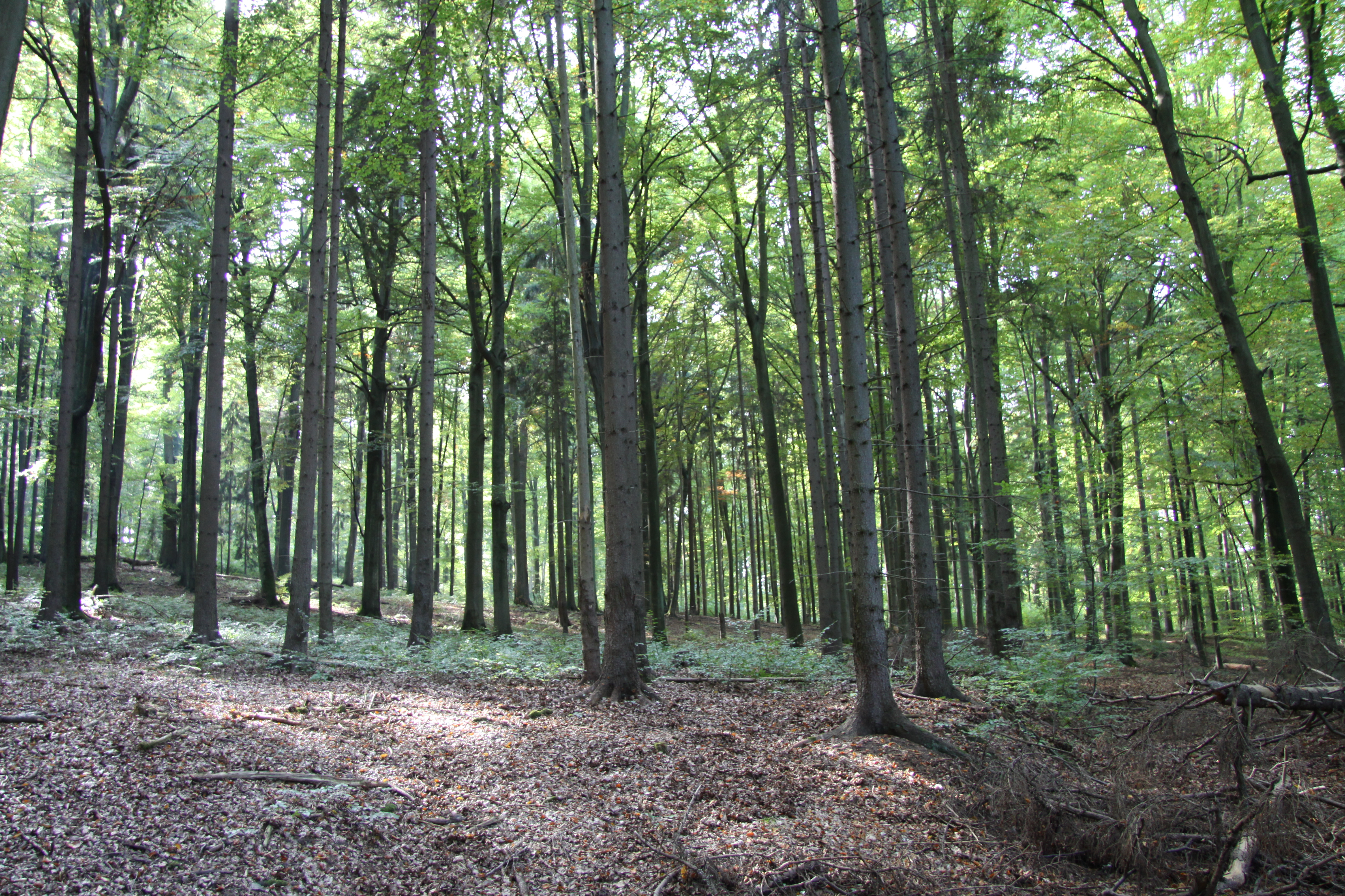 Natural monument Rukávečská obora, Písek District, Czech Republic - Google Maps - Google Earth